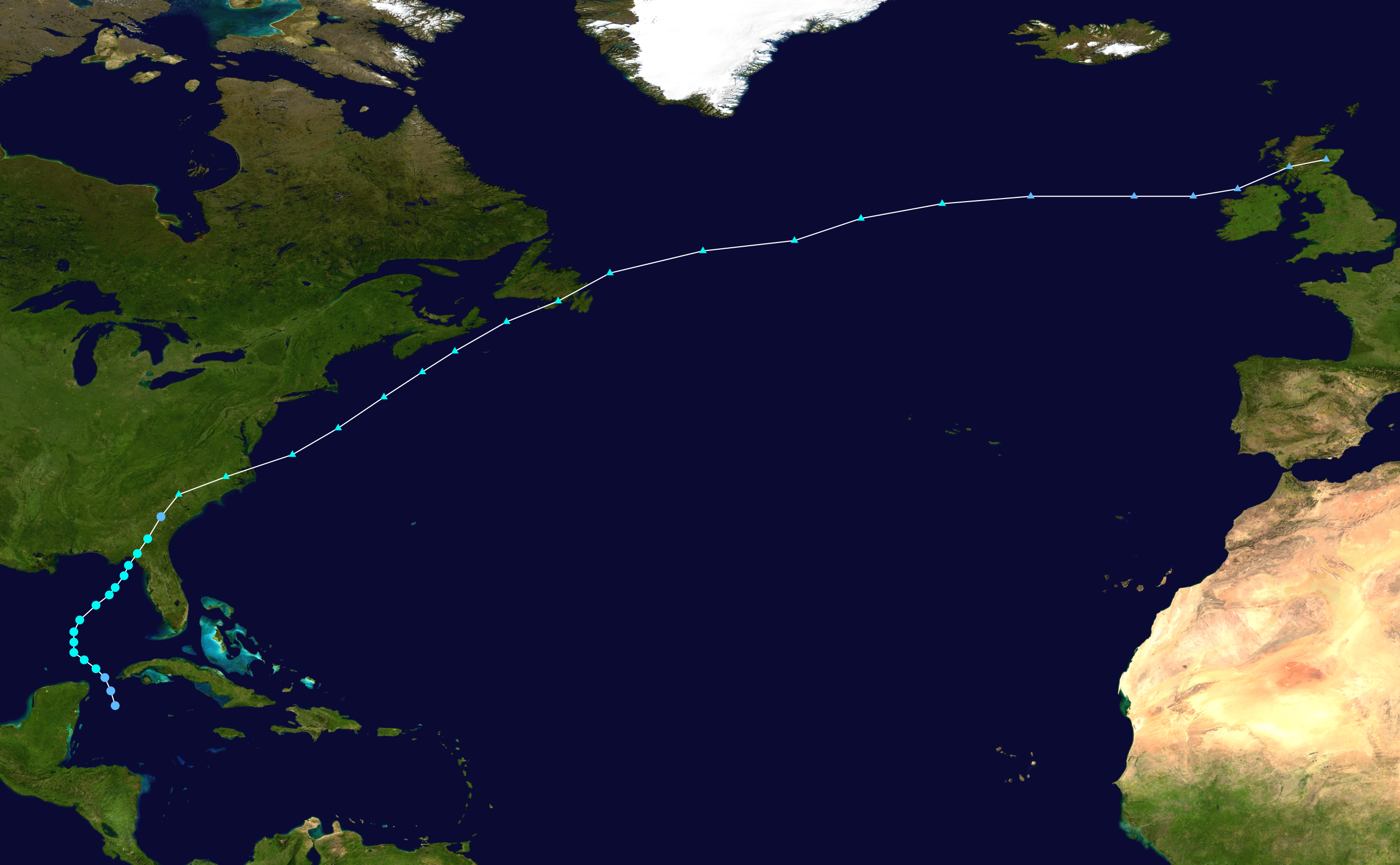 Track map of Tropical Storm Alberto of the 2006 Atlantic hurricane season. The points show the location of the storm at 6-hour intervals. The colour represents the storm's maximum sustained wind speeds as classified in the Saffir–Simpson scale (see below), and the shape of the data points represent the nature of the storm, according to the legend below. Saffir–Simpson scale Tropical depression≤38 mph≤62 km/h Category 3111–129 mph178–208 km/h Tropical storm39–73 mph63–118 km/h Category 4130–156 mph209–251 km/h Category 174–95 mph119–153 km/h Category 5≥157 mph≥252 km/h Category 296–110 mph154–177 km/h Unknown Storm type Tropical cyclone Subtropical cyclone Extratropical cyclone / Remnant low / Tropical disturbance / Monsoon depression